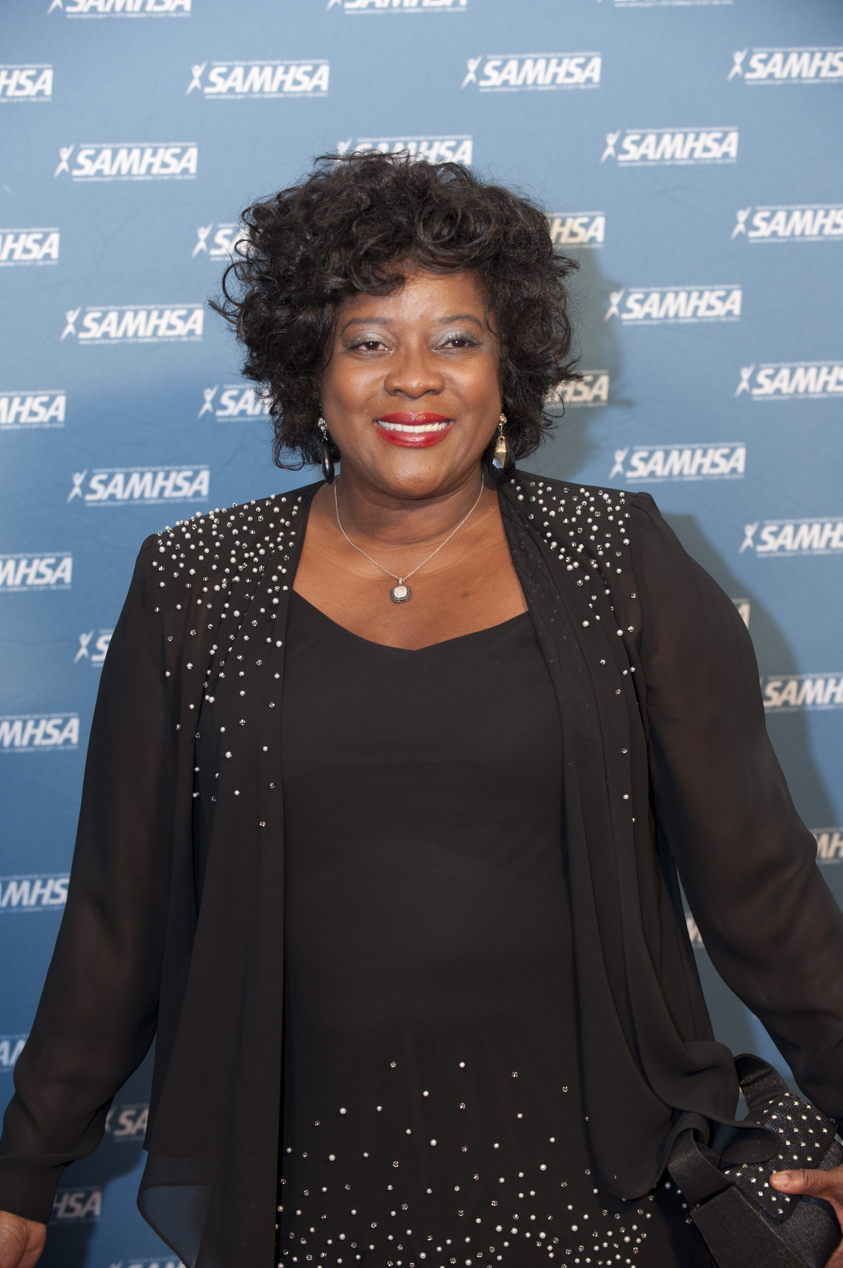 Actress Loretta Devine arrives at the 2011 Voice Awards to present the writers and producers of “Grey's Anatomy” with a 2011 Voice Award. Ms. Devine won an Emmy© for her portrayal of Adele Webber on the hit ABC series. Photo credit: SAMHSA